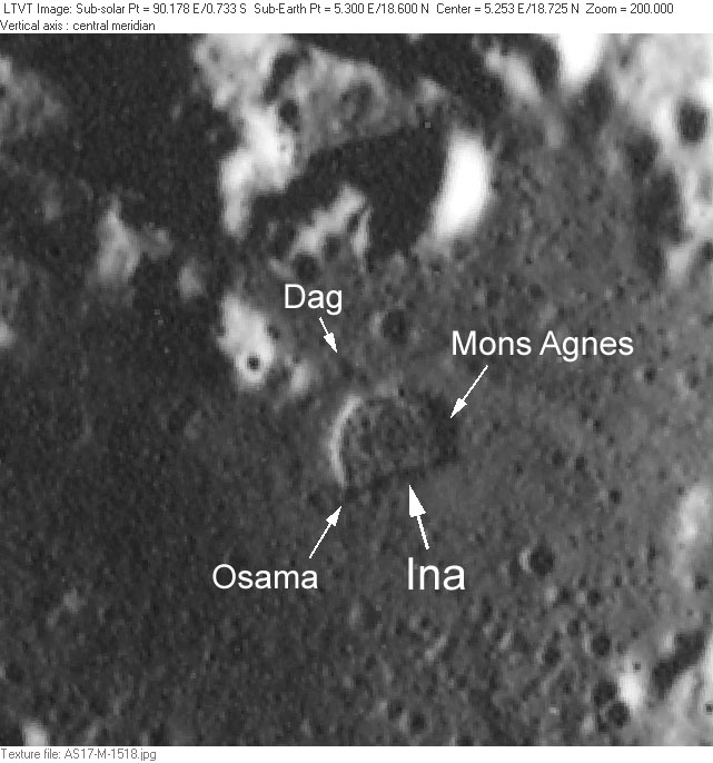 Moon craters Ina, Dag, Osama and Mons Agnes. Detail from Apollo 17 metric image AS17-M-1518, remapped to a north-up aerial view by LTVT.